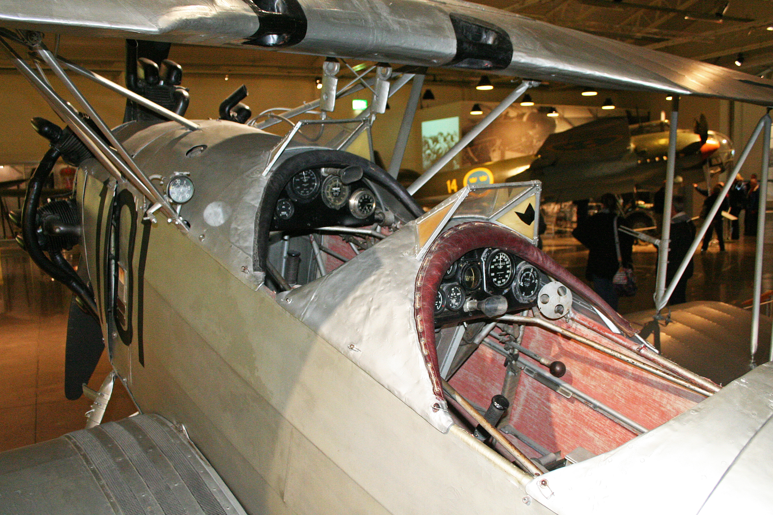 This is the only remaining example of this German trainer. The service aircraft ended up 200kg heavier than the original design, and of the 25 which saw Swedish service, 18 were written off. msn 20. Flyvapenmuseum, Malmen, Sweden. 04-06-2012